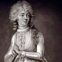 Tryphosa Jane Wallis or Tryphosa Jane Campbell (1774 – 29 December, 1848) was a British Actress painted by George Romney in about 1789 and here John Graham in the 1790s